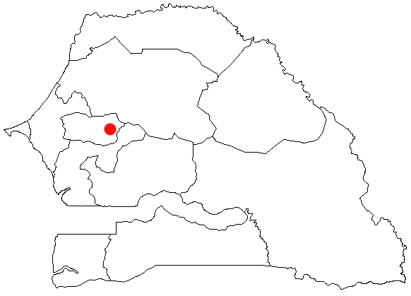 Mbacké, Senegal Location Map; created with the GIMP